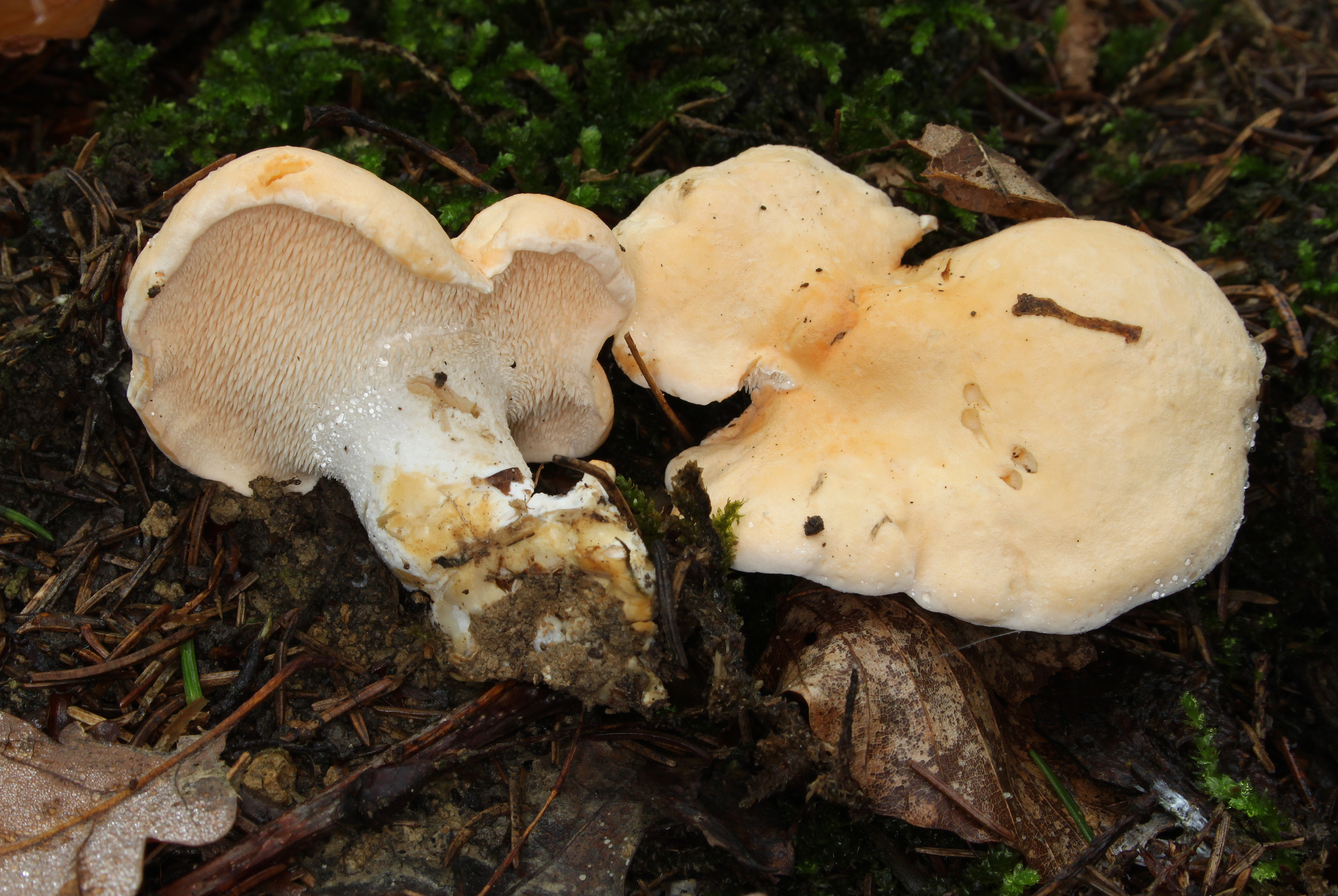 Wood Hedgehog or Hedgehog mushroom, Hydnum repandum, Family: Hydnaceae, Location: Germany, Ulm, Eggingen